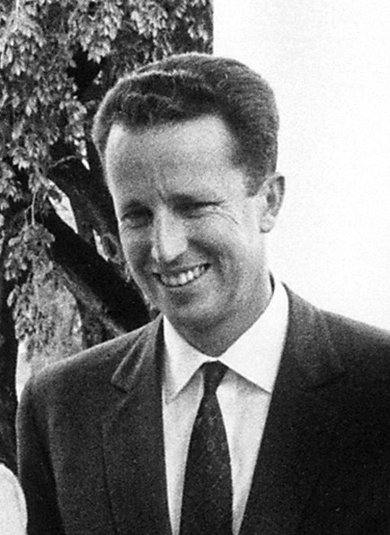 King Baudouin I Belgium during a visit to President Nixon in Washington, May 20, 1969. ARC Identifier: 194630 crop from Image:Baudouin 1969.jpg